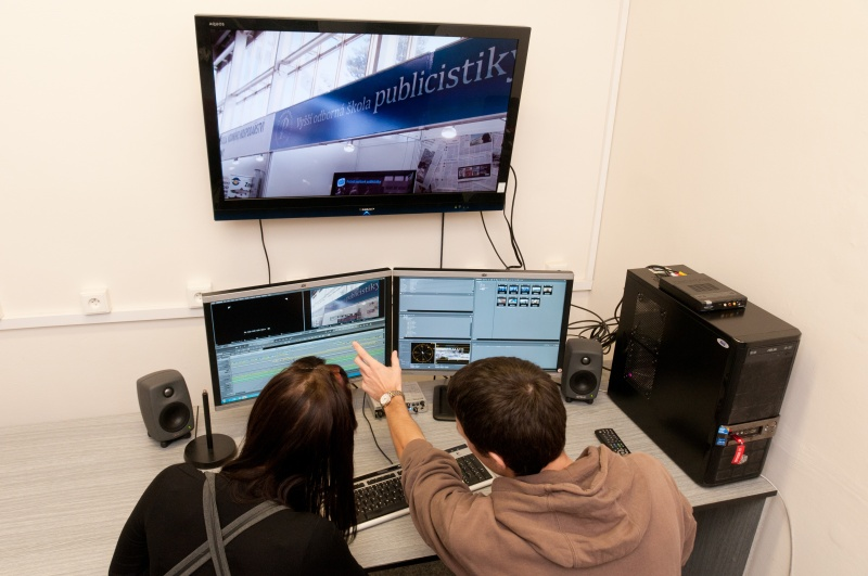 Cutting room at College of Media and Journalism in Prague.